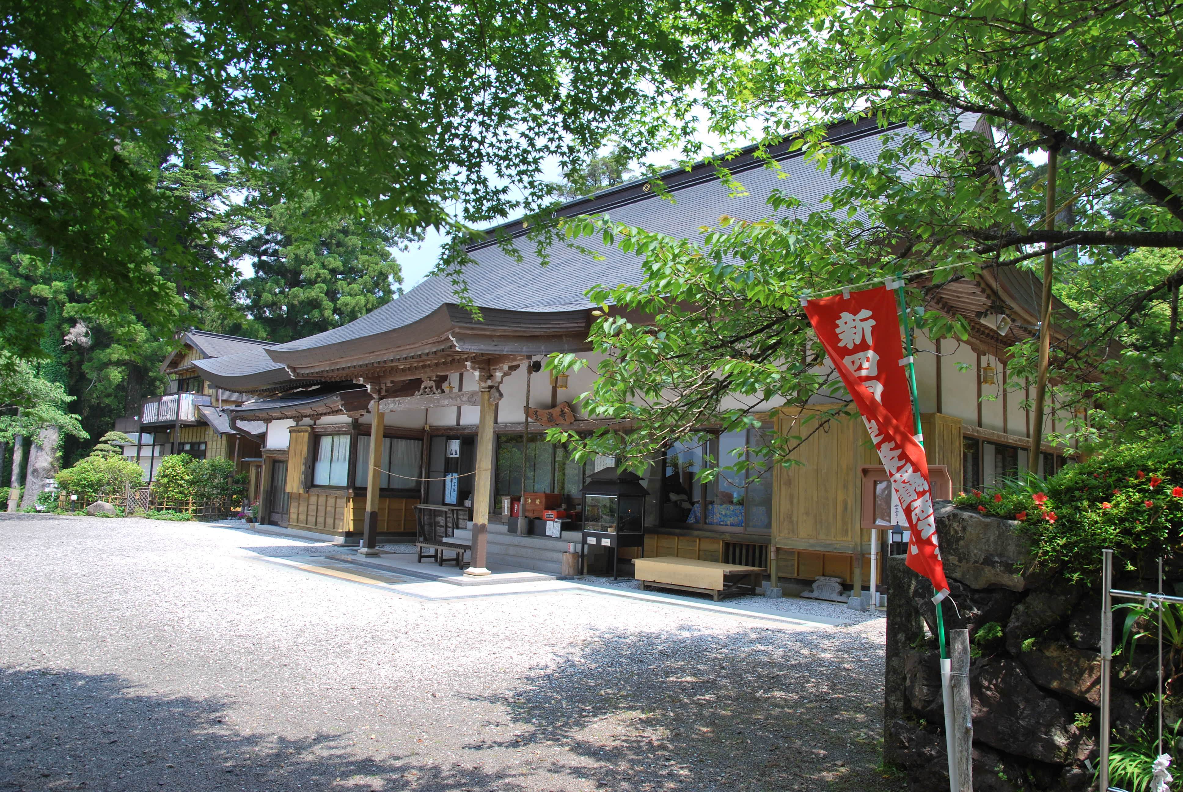 Honbō, Kurotaki-ji